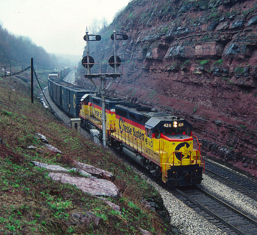 Eastbound about to enter the tunnel at the summit of Sand Patch Grade, Pennsylvania. April 1987. Scan from 35mm slide.